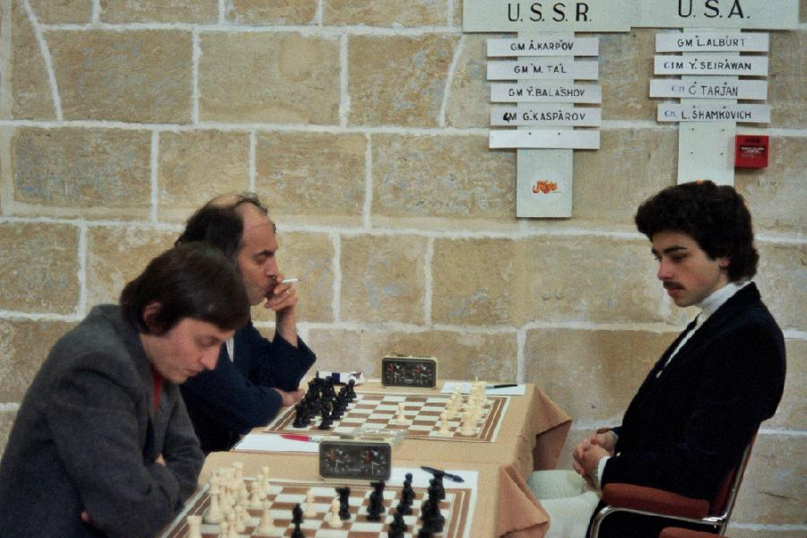 Chess Olympiad 1980 in Valetta on Malta. UdSSR - USA: Anatoli Karpow, Michail Tal, Yasser Seirawan. Photographer Gerhard Hund